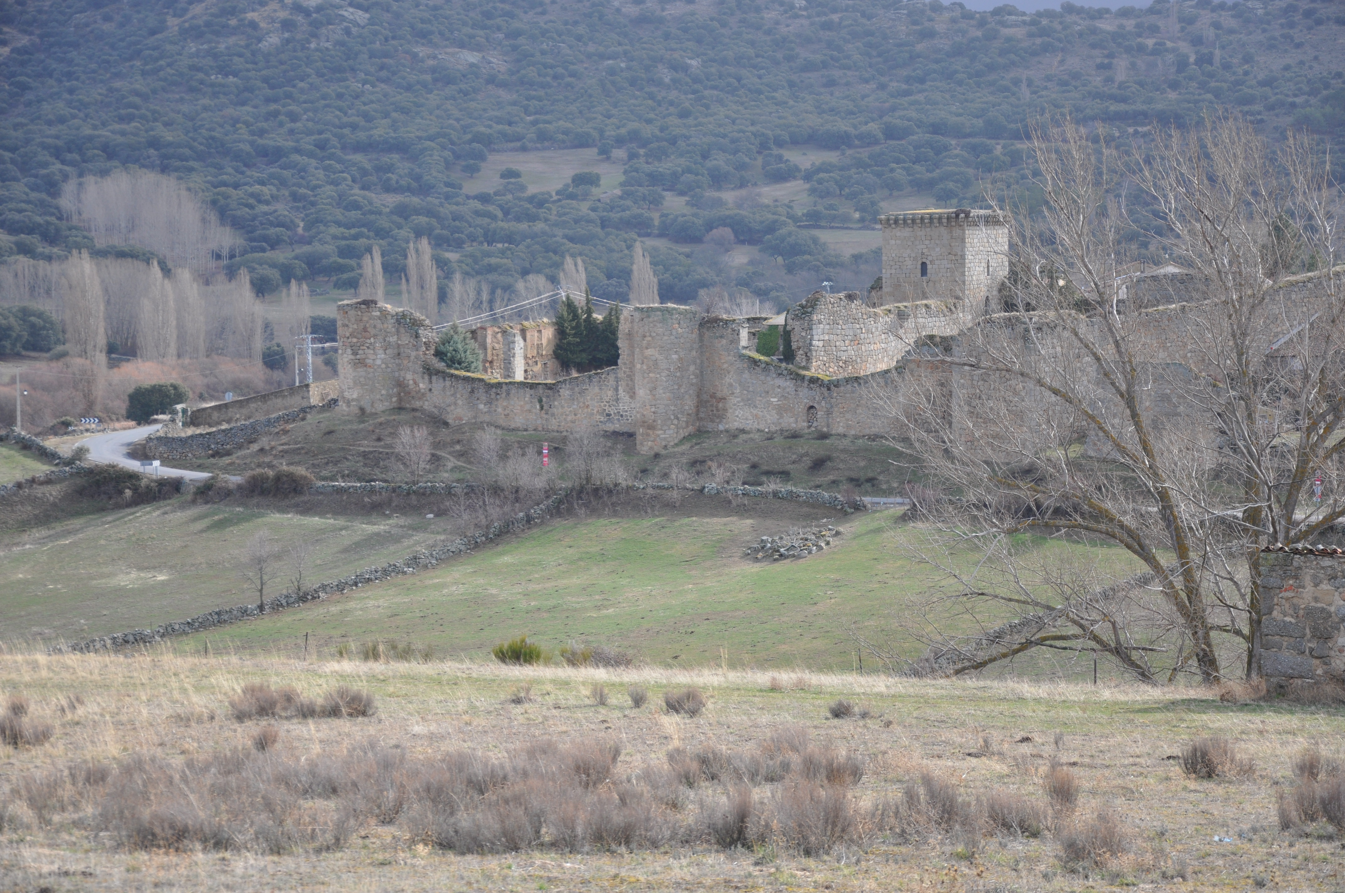 View of the walls and castle of Bonilla de la Sierra from the north, Ávila, Spain